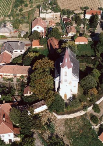 Tarcal, Hungary, aerialphotography